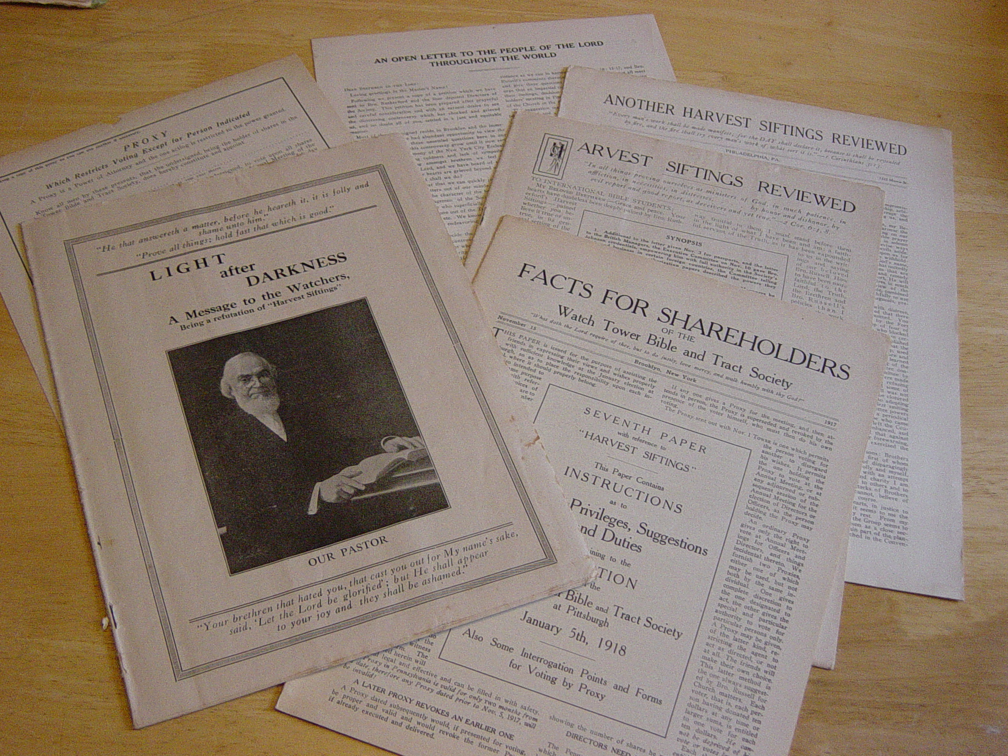 Various Bible Student writings from the Watch Tower Schism in 1917. The newly elected second Watch Tower President, J.F. 'Judge' Rutherford, sought to control the Bible Society and the movement under his own personal style, similar in principle to that exercised by Pastor Russell. Several members of the Board of Directors dissented on the grounds that his doing so violated terms of both the Society's Charter and Russell's Last Will & Testament. In response Rutherford dismissed them, claiming they had not been legally elected, and chose four other individuals to take their place. These are a few of the pamphlets printed during a 'pamphleteering war' that took place between the dismissed Board members with supporting Bible Students, and Rutherford's Board and those supporting him. As the issues became more widely known, and as Rutherford's changes became more blatant, nearly three-quarters of Bible Students severed ties with the Society by the end of 1928. Those who stayed loyal to J.F. Rutherford later became known as Jehovah's Witnesses in 1931.